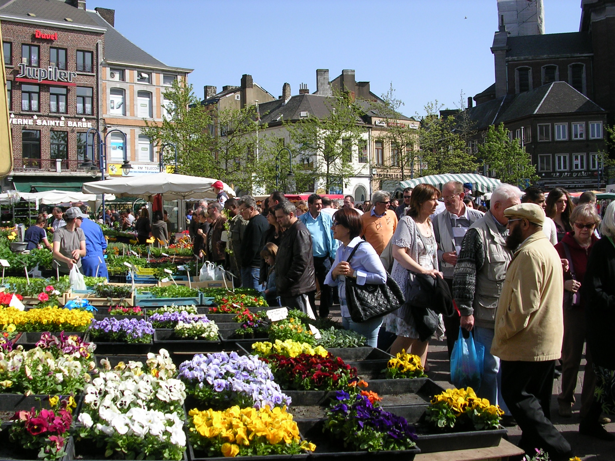 Charleroi (Belgium) - Charles II square on market day (sunday)